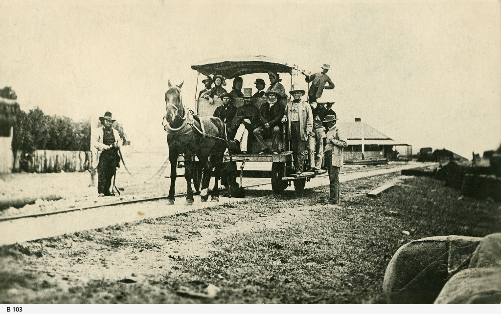 Goolwa to Port Elliot tramway, for names of passengers. Standing on the left with reins, Hillman, driver; standing on right Thomas Goode; J.P. Merot, Mayor of Goolwa; standing on the step in front T. Jones, traffic manager; on front seat in white trousers T. Taylor, customs officer at Goolwa. [The Post and Telegraph office, built in 1857, is visible behind the carriage.]